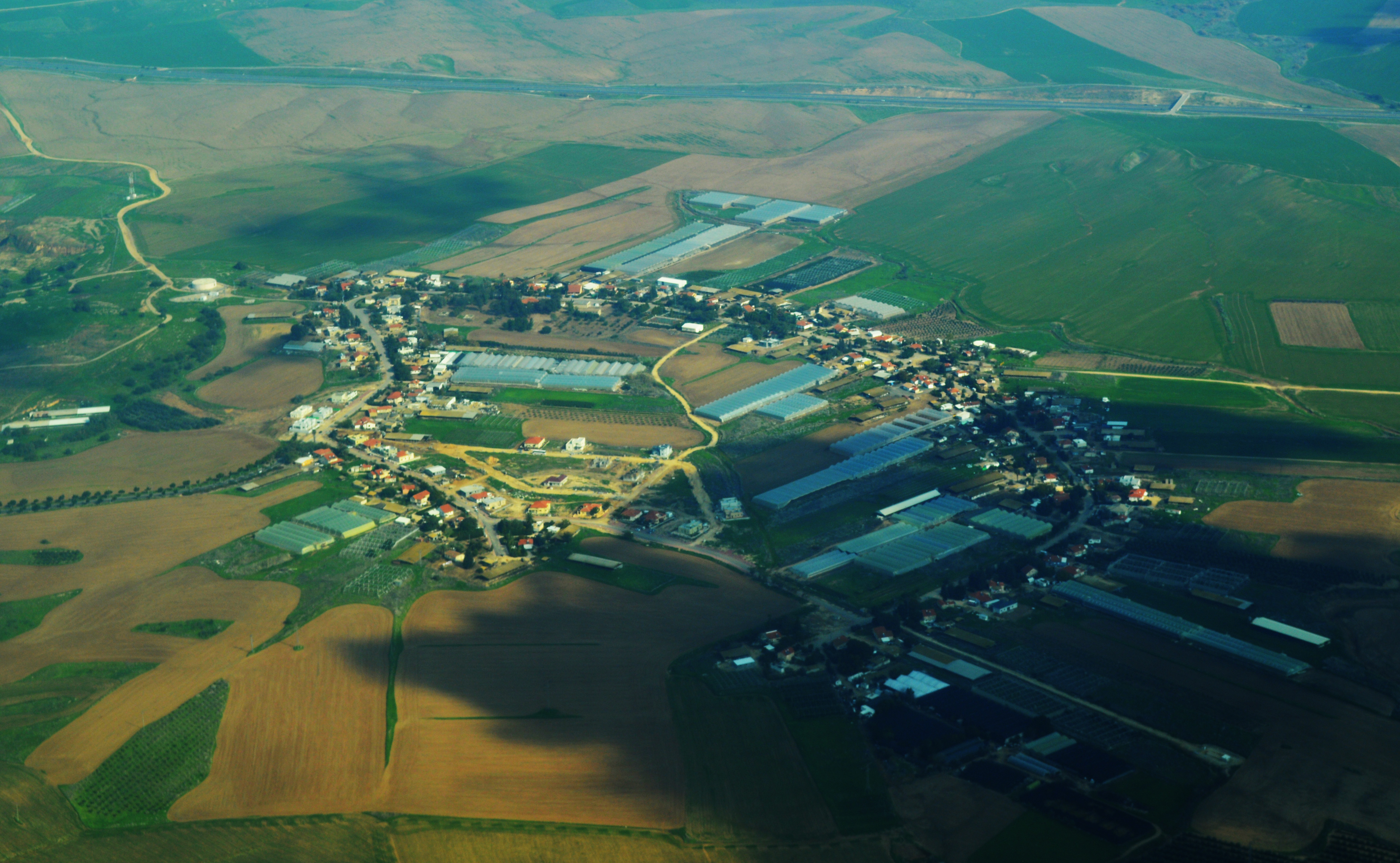 Moshav Nahala Aerial View